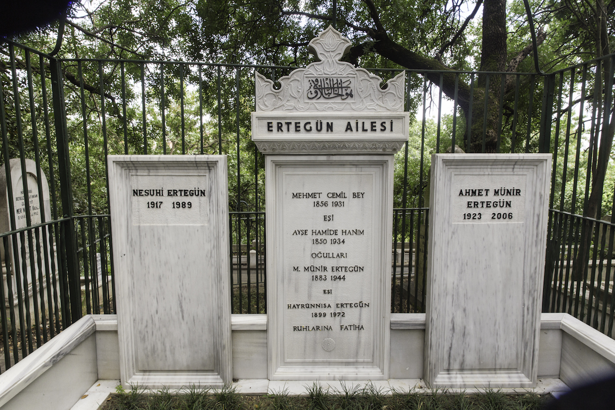 Grave in Istanbul/Turkey of: Münir Ertegün - 1. ambassador of the Turkish Republic in the USA Ahmet Ertegün - co-founder and president of Atlantic Records and soccer club New York Cosmos, songwriter, philanthropist Nesuhi Ertegün - Turkish-American record producer and executive of Atlantic Records and WEA International